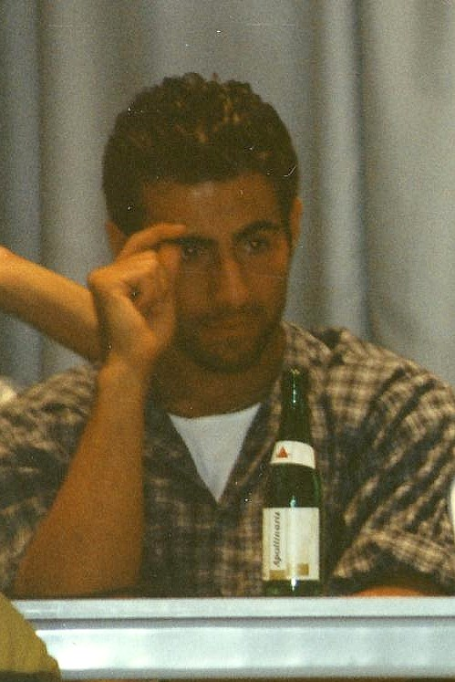 Ömer Erdogan 1997 as Player of FC St. Pauli